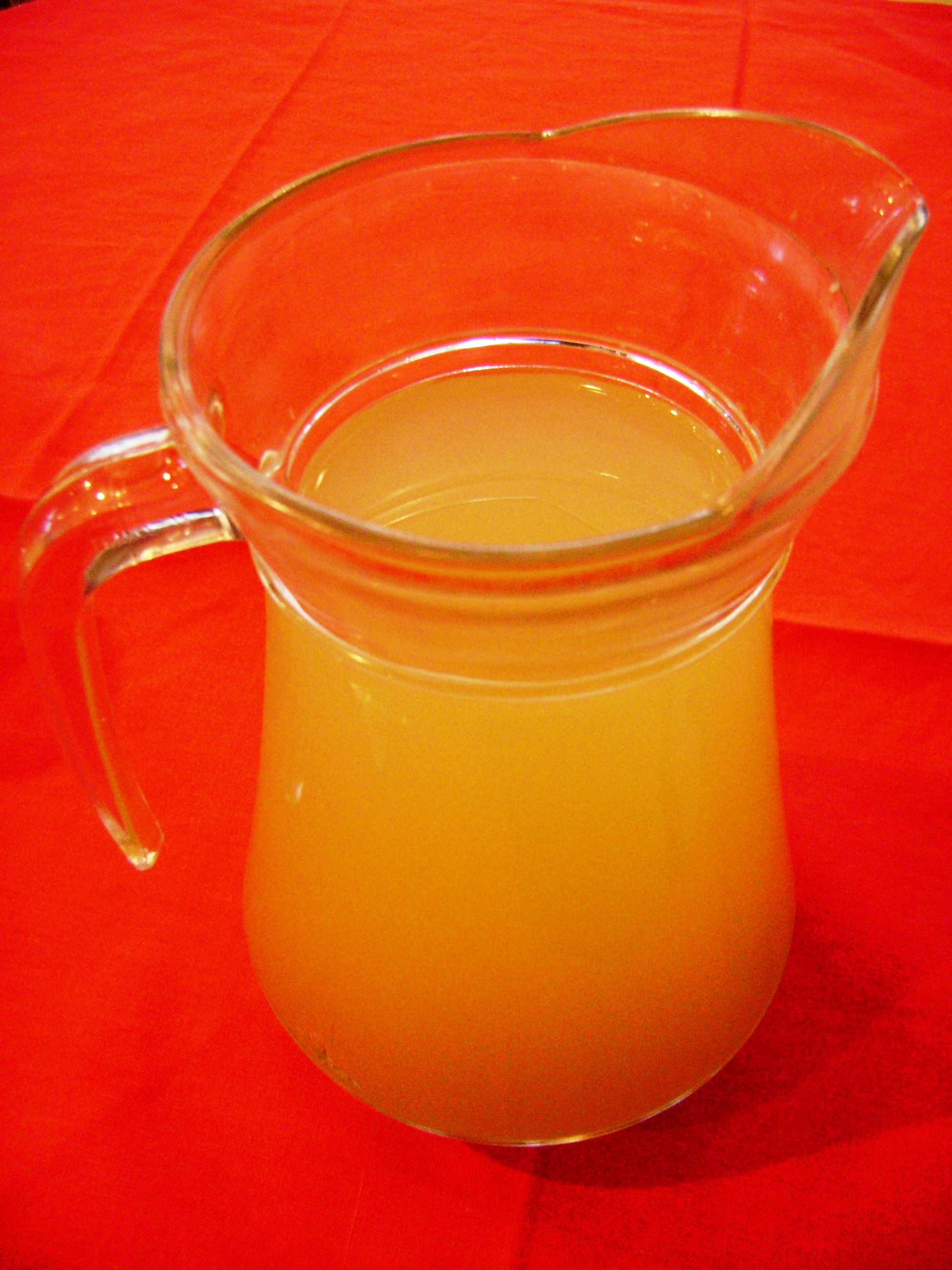 Cocona juice. Cocona is a fruit of the rain forest of Peru.